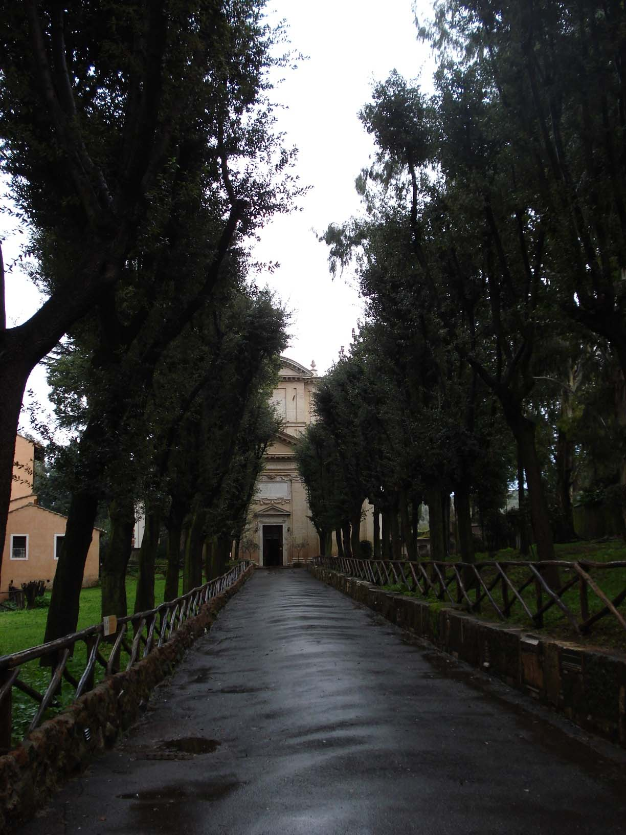 Eucalipti alley to San Paolo alle Tre Fontane (Roma)